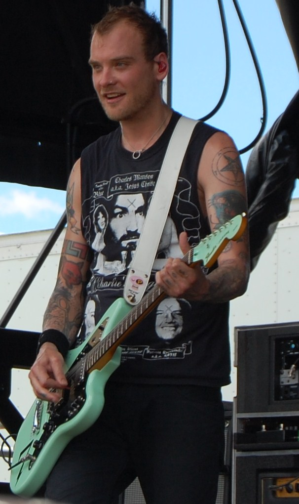 Matt Skiba performing during the Las Cruces show of Warper Tour 2010.